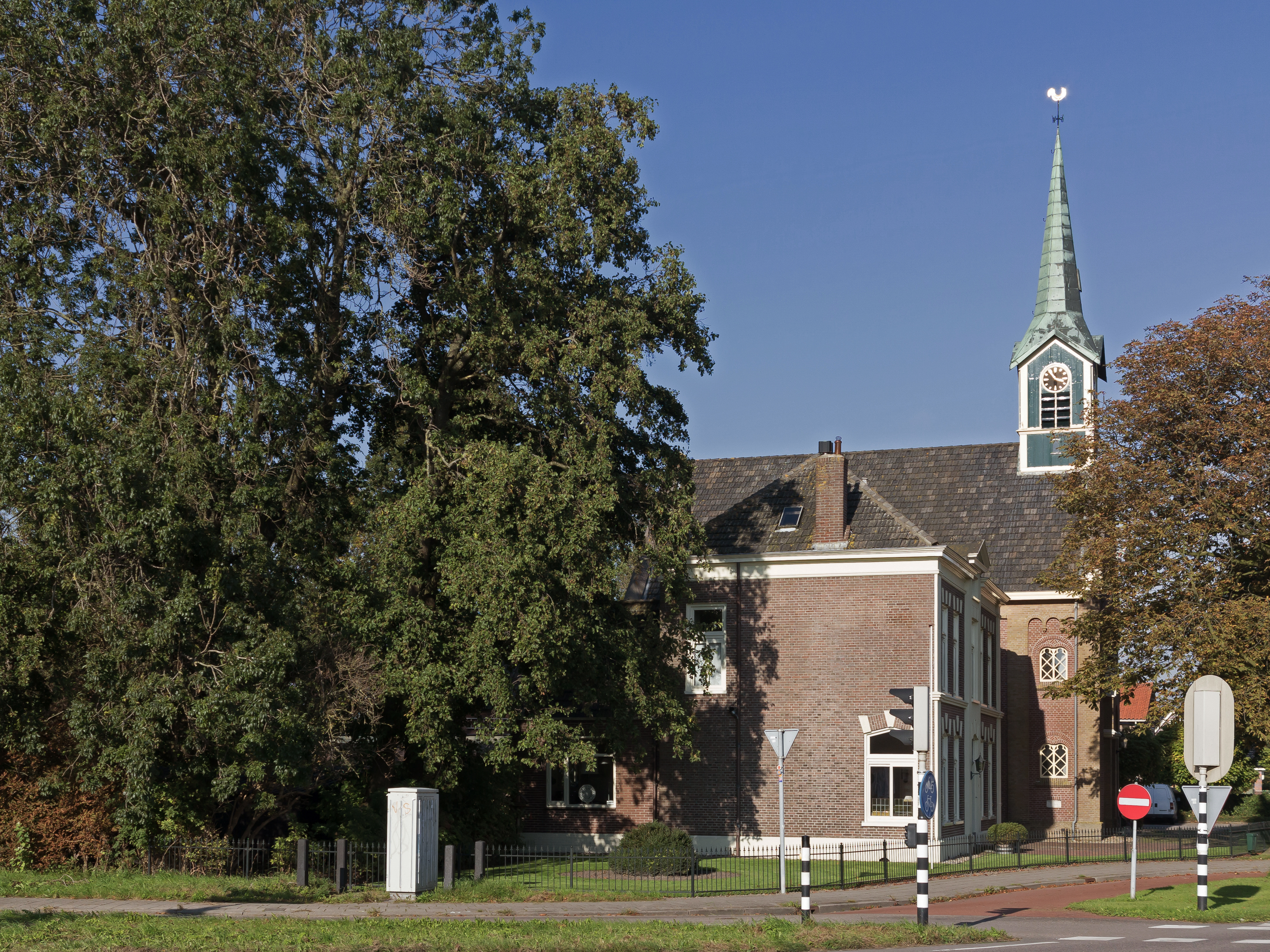 Obdam, reformed church